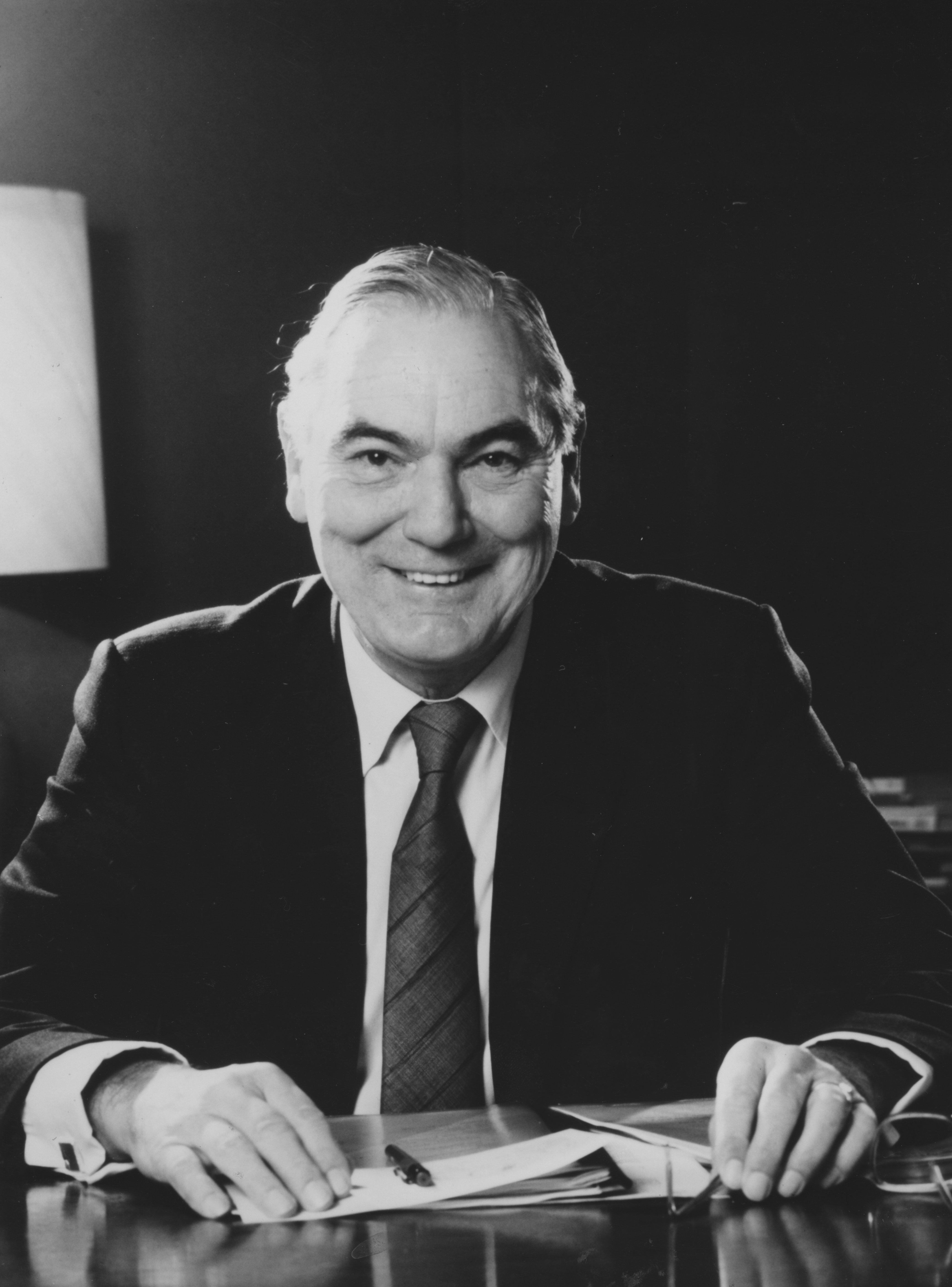 Honorary Fellow, Chairman of the Court of Governors IMAGELIBRARY/584 Persistent URL